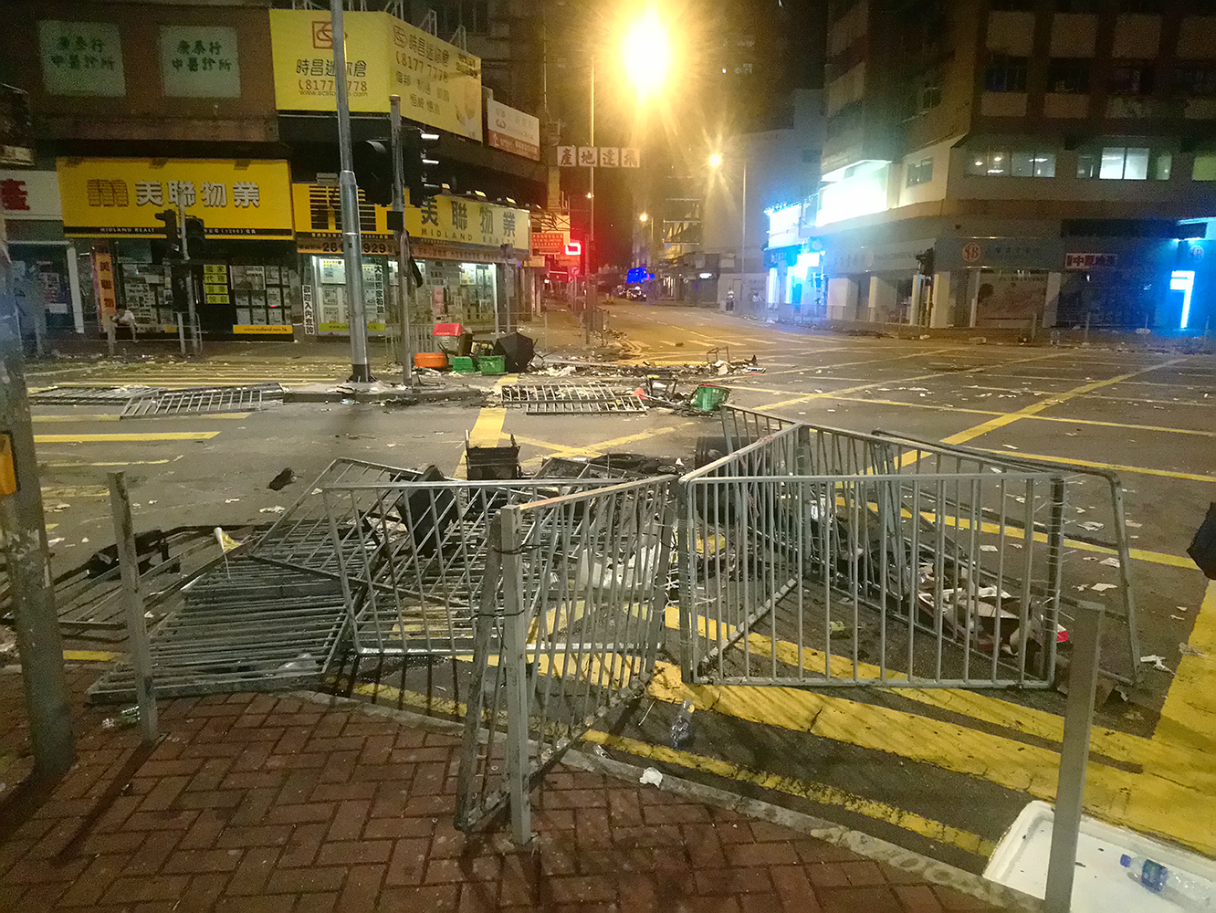 Tuen Mun Heung Sze Wui Road